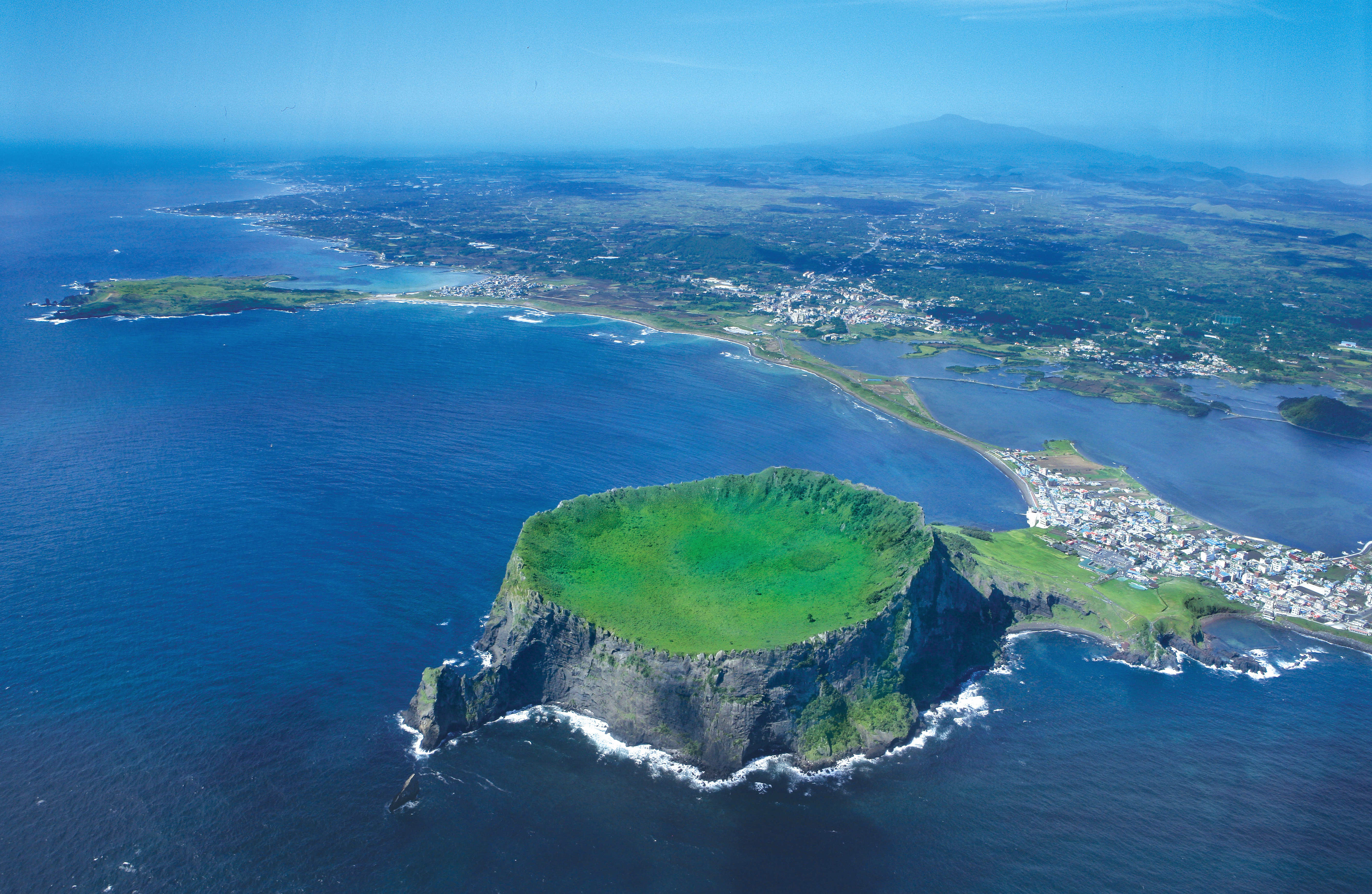 Jeju-do, a Special Self-Governing Province is the only special autonomous province of Korea, situated on and coterminous with the country's largest island.